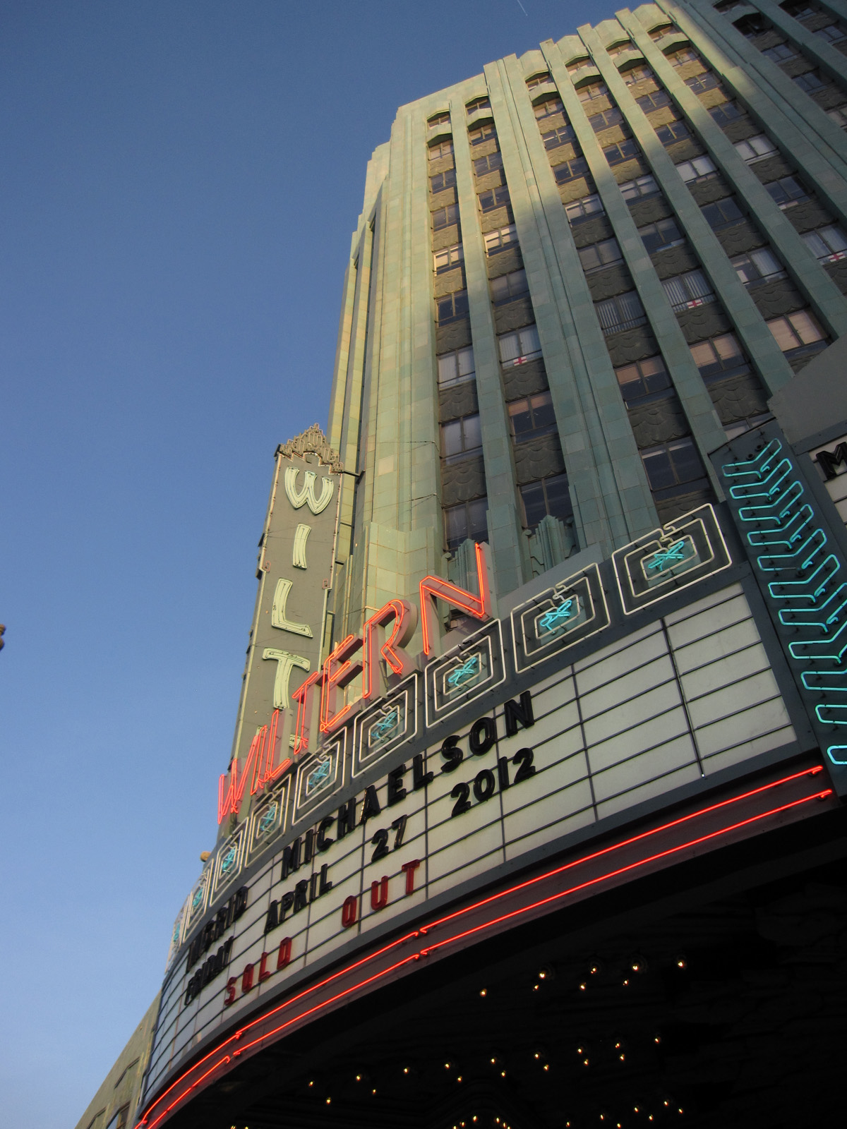 I am at the Wiltern, to attend Ingrid Michaelson's show starting shortly. Eventually I paid an extra $20 to do an on-the-spot upgrade to the pit, jumping the line and situating myself front row center; it allowed me to get some great pictures of the show with a modest point-and-shoot camera, and even interact with Ingrid for a few minutes. The Wiltern, located at Wilshire and Western (hence its name), was built on what was the nation's heaviest trafficked intersection in the 1920s. At the time, Wilshire Boulevard was being touted as the future "Fifth Avenue of the West," and attracted many buildings; Wilshire Boulevard's Art Deco highrises also were among the first anywhere to feature storefronts optimized for motorist shoppers, rather than pedestrian ones. The Wiltern was saved from a planned demolition in 1979, and now is a focal point for a neighborhood that has been revitalized and gentrified in recent years - Koreatown, home to both affluent South Koreans/Korean-Americans as well as white hipsters priced out of Hollywood. Despite the gentrification, working-class immigrant residents are still going strong as well in surrounding blocks. The Wiltern is the current terminus of the Metro Purple Line subway, which was opened in 1996 and contributed to the revitalization of the area; plans are under way to extend the Purple Line along Wilshire further west to Beverly Hills and beyond by about 2020.